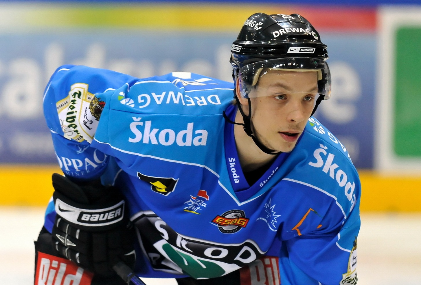 Kilian Glück, Dresdner Eislöwen 2007/08